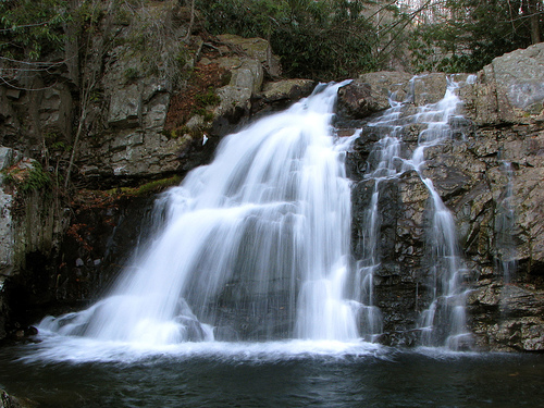 Photo of Hawk Falls in Hickory Run State Park, Pennsylvania taken by Michael Parker. Original